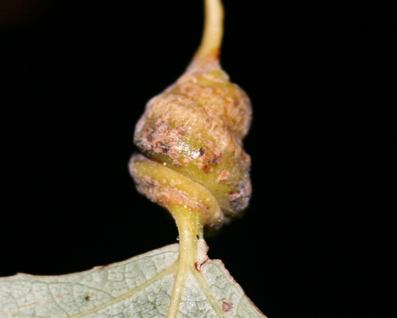 Galle von pemphigus spirothecae